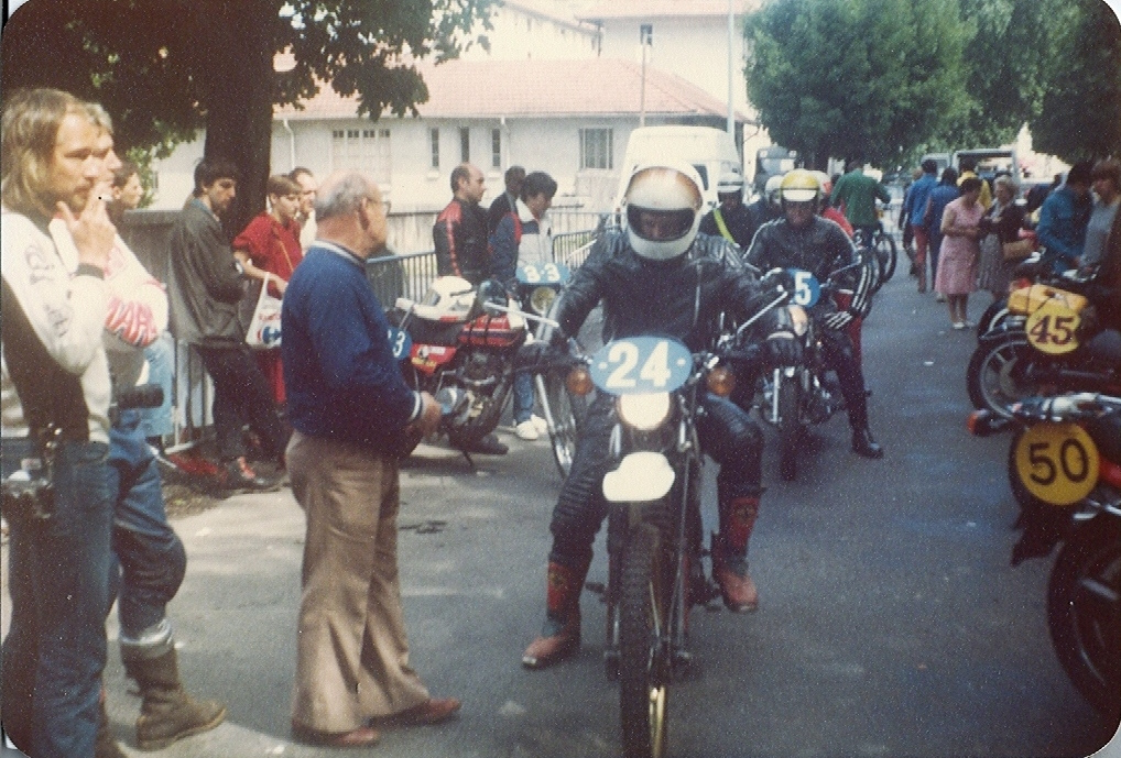 Rallye Des Pyrenees also known as the Circuit Des Pyrenees and formerly the Pau-San Sebastian Rally : Competitors gather in Pau having been awarded their starting numbers.